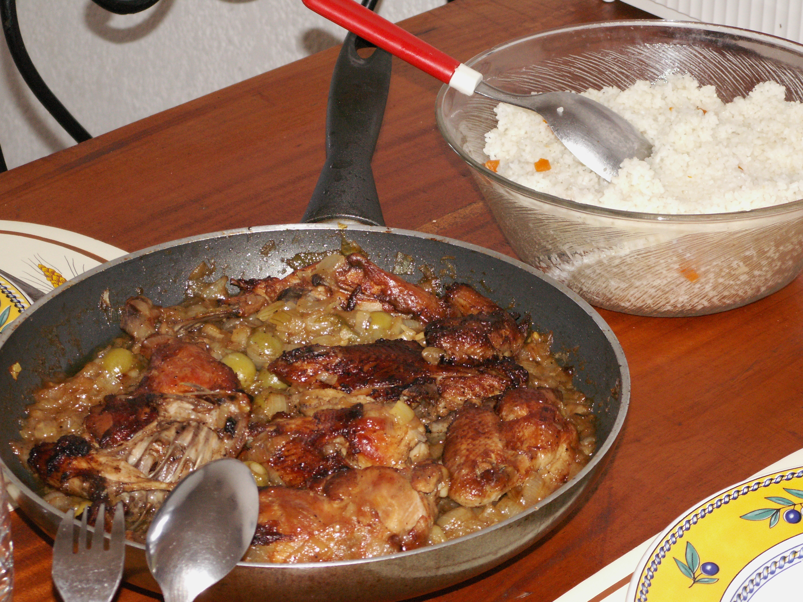 The countries' national dish, the yassa poulet.